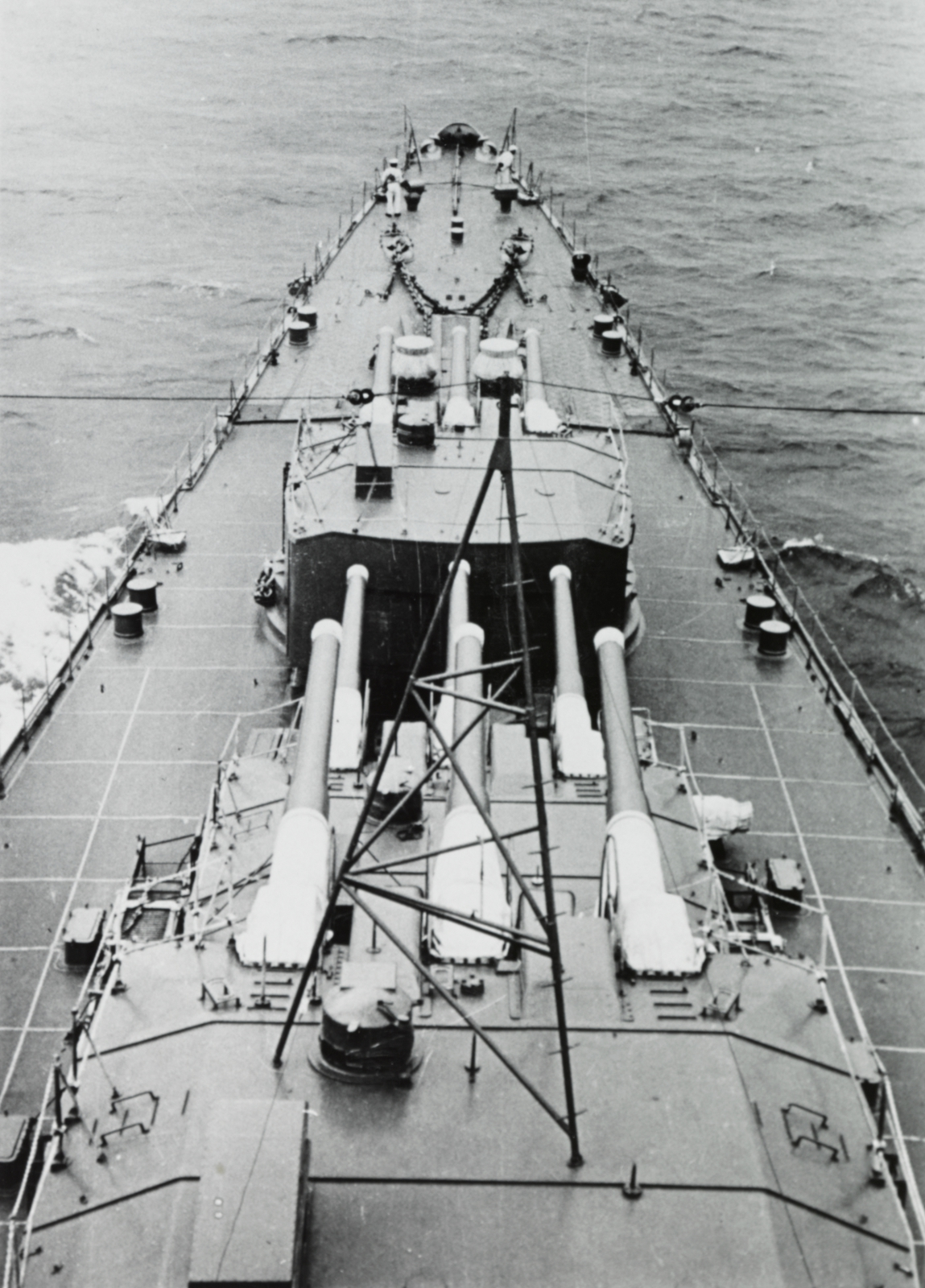 Forward 155-mm gun mount the Japanese heavy cruiser Kumano.